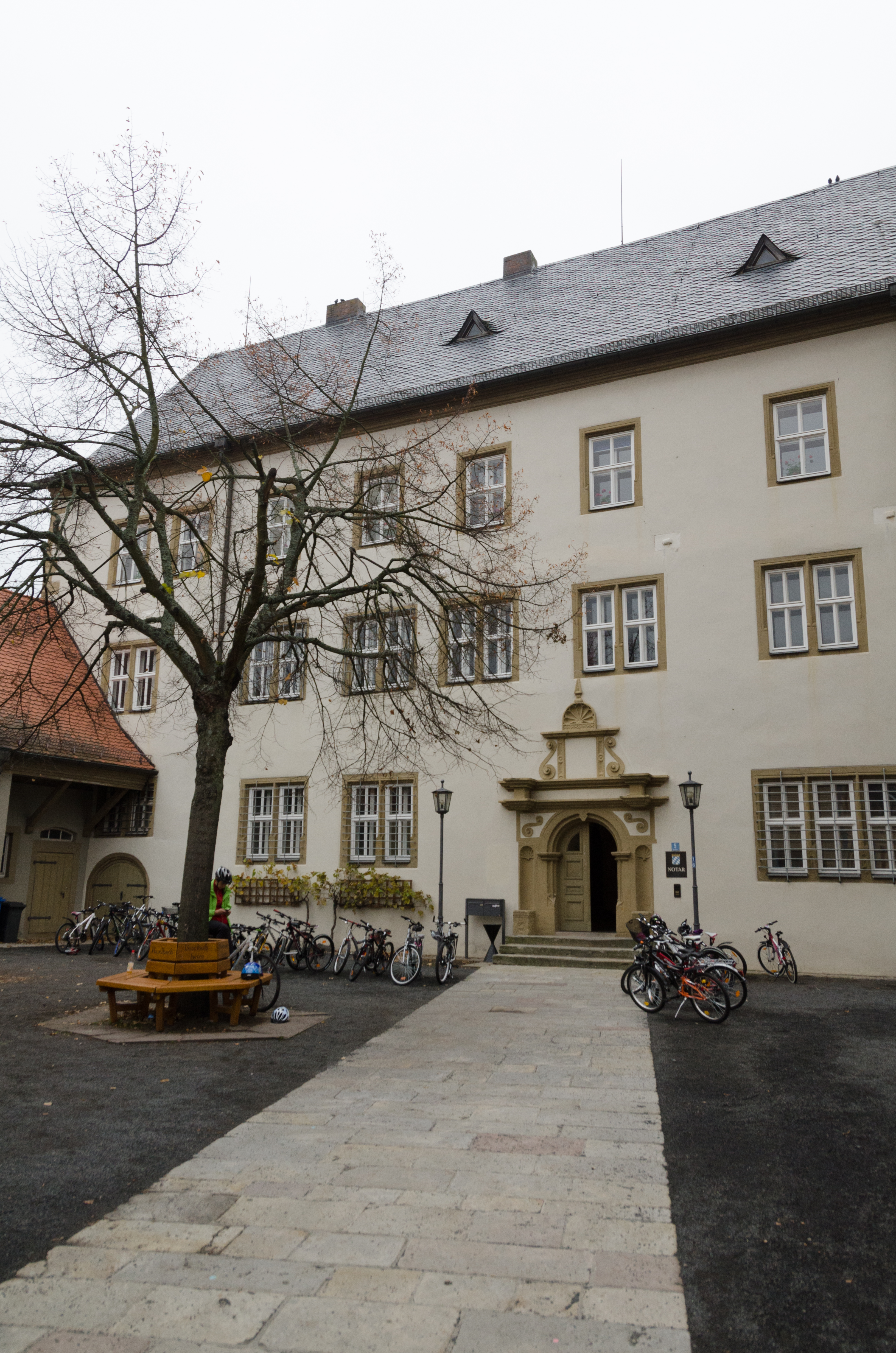 Bischofsheim an der Rhön Kirchplatz 5